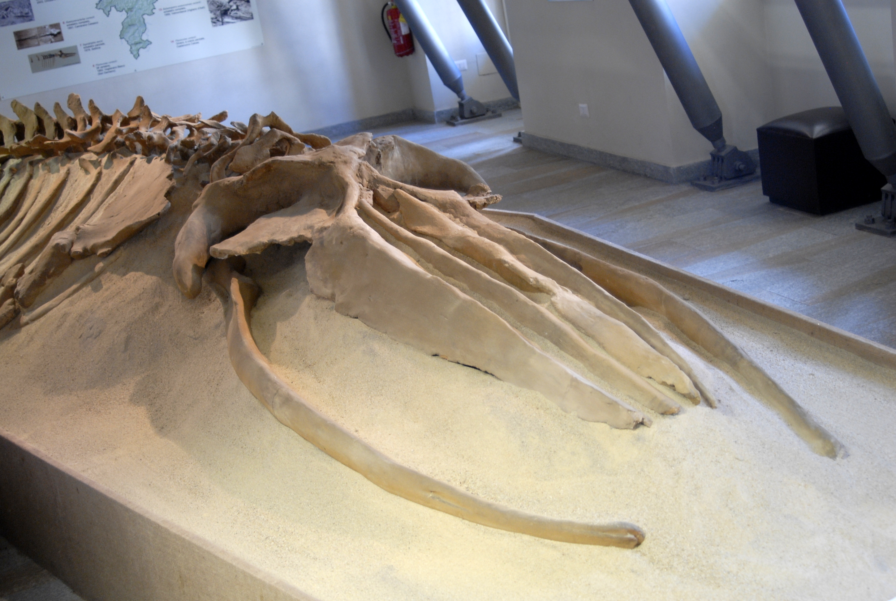 Fossil of Balaenoptera acutorostrata cuvieri from Pliocene of Italy, on display at the Museo Paleontologico, Asti